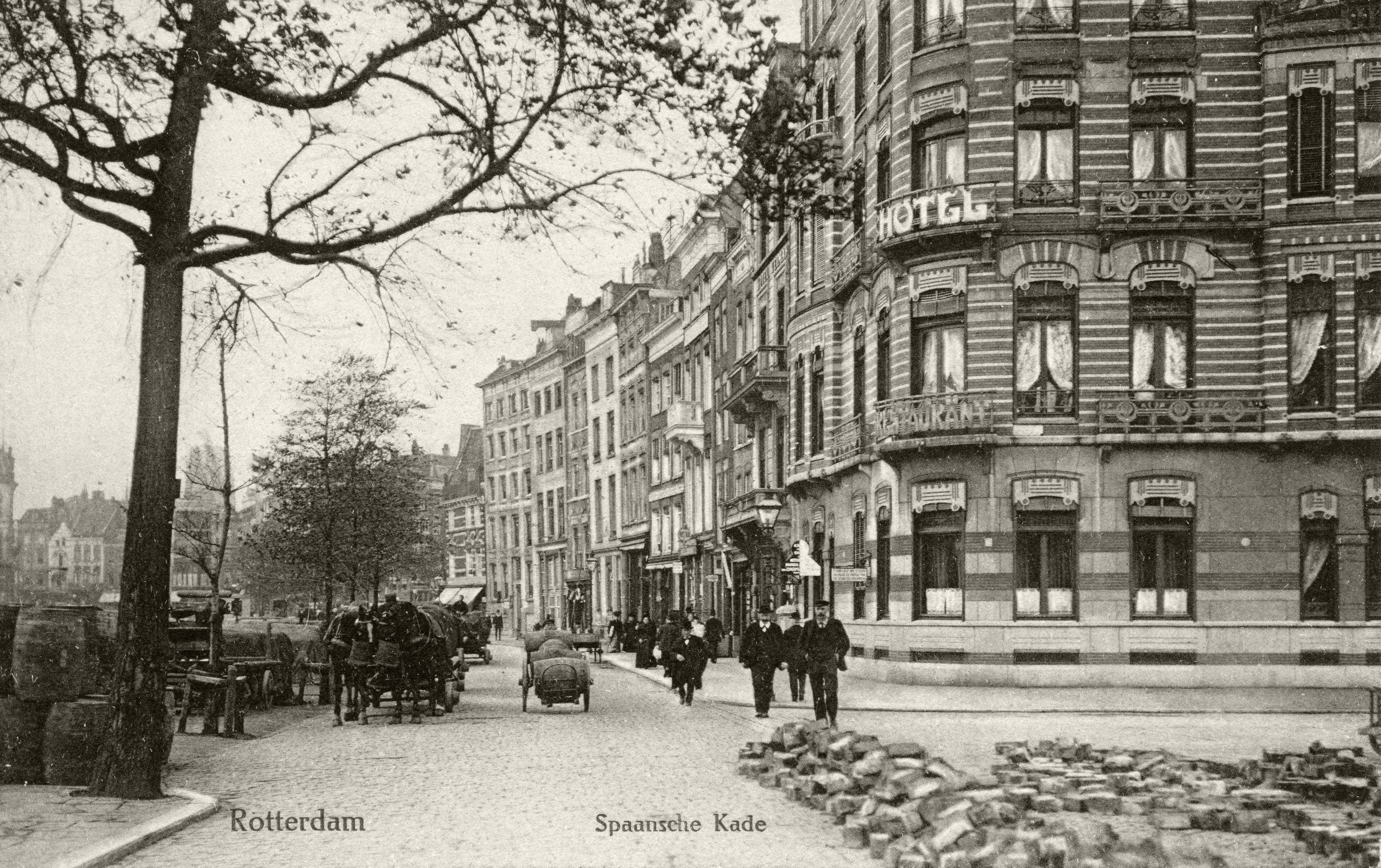 The Hotel Weimar by the architect W. Molenbroek is on the right-hand corner. In the center of the picture, the building with the Spinola awnings. On the corner with the Nieuwe Haven zz. On this photo you can clearly see the Jugendstil detailing of the Hotel Weimar.